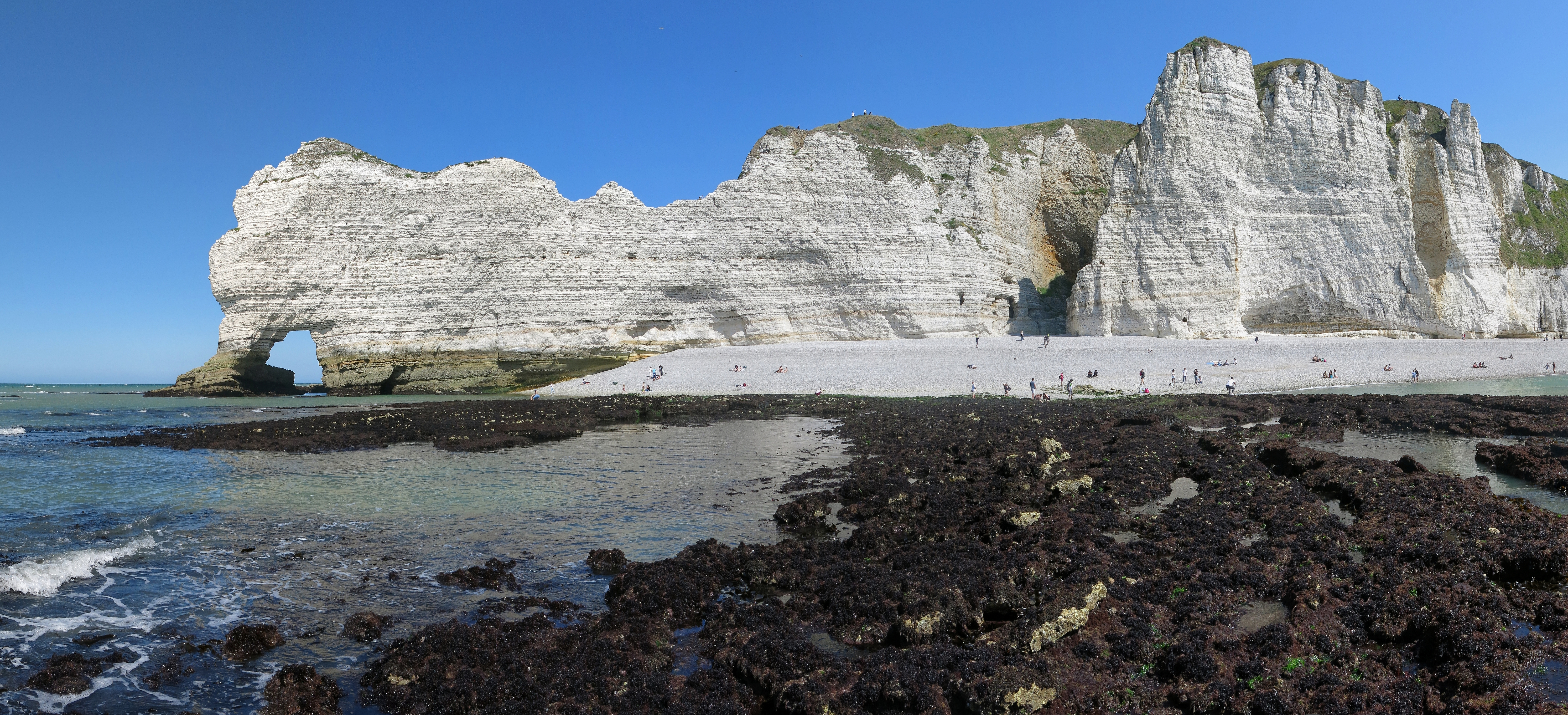 Cliffed coast at Étretat, France, seen from the offshore wave cut platform